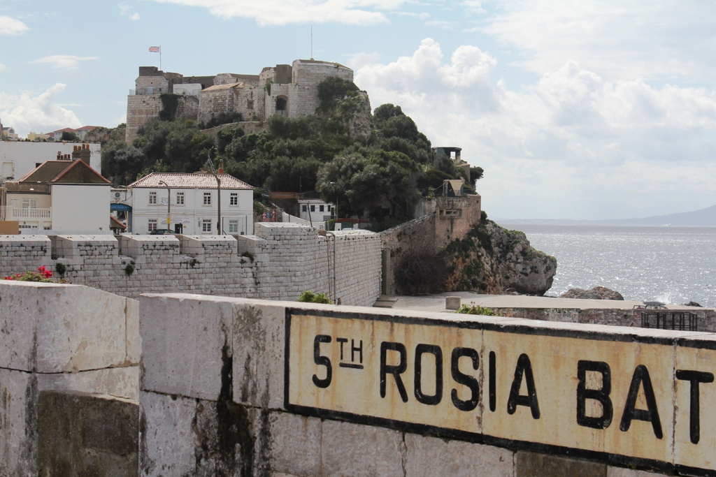 5th Rosia Battery Gibraltar and Parsons Lodge Battery